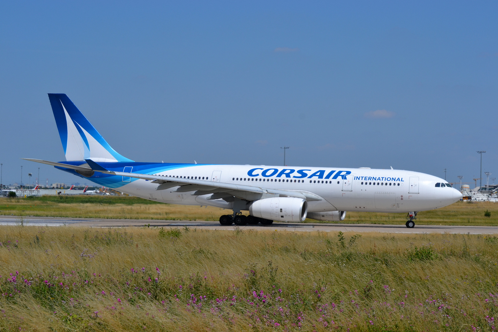 Paris-Orly Airport